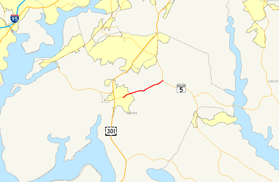 Map of Maryland Route 488